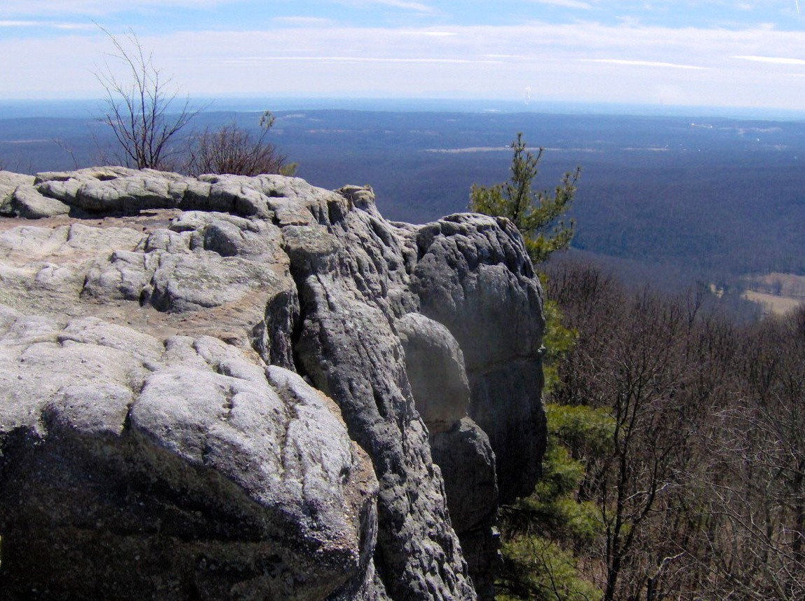 Looking east from an overlook near the summit of Black Mountain in Cumberland County, Tennessee, in the southeastern United States. Part of Grassy Cove is visible below on the right. The edge of the Cumberland Plateau is visible along the horizon (the border between the dark brown and blue area). The smoke plume faintly visible at the top is from Watts Bar Nuclear Power Plant. This overlook is located just off the Cumberland Trail.